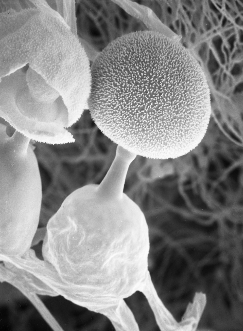 Utharomyces epallocaulus